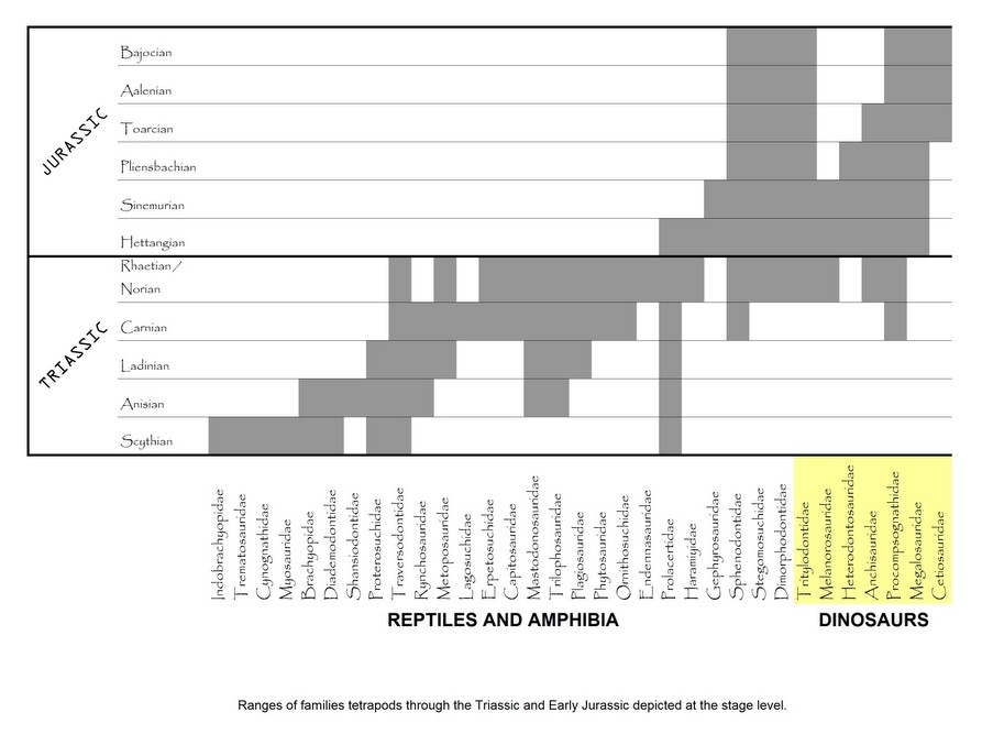 Triassic-Jurassic boundary mass extinction (one of the “big five”) exemplified by the stratigraphic range of some tetrapod families: many temnospodyl, therapsid and basal archosaur families disappear at the Triassic-Jurassic boundary whereas lepidosaurs and most of the dinosaur families (the latter ones highlighted in yellow), which appear in the Upper Triassic, survive into the Jurassic.